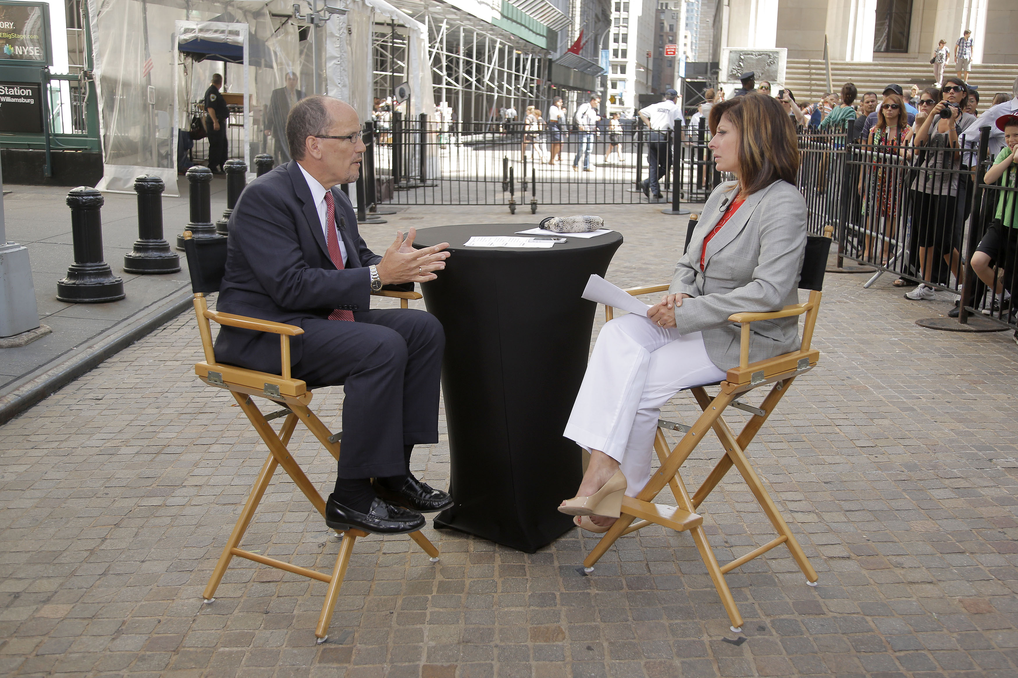 U.S. Secretary of Labor Thomas Perez is interviewed by Maria Bartiromo for "On The Money with Maria Bartiromo" on CNBC in New York, August 23, 2013. INSIDER IMAGES/Gary He for the Department of Labor